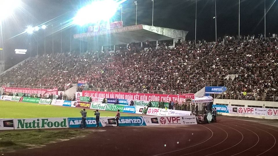 Khán đài B sân Lạch Tray- nơi cuồng nhiệt nhất của CĐV Hải Phòng